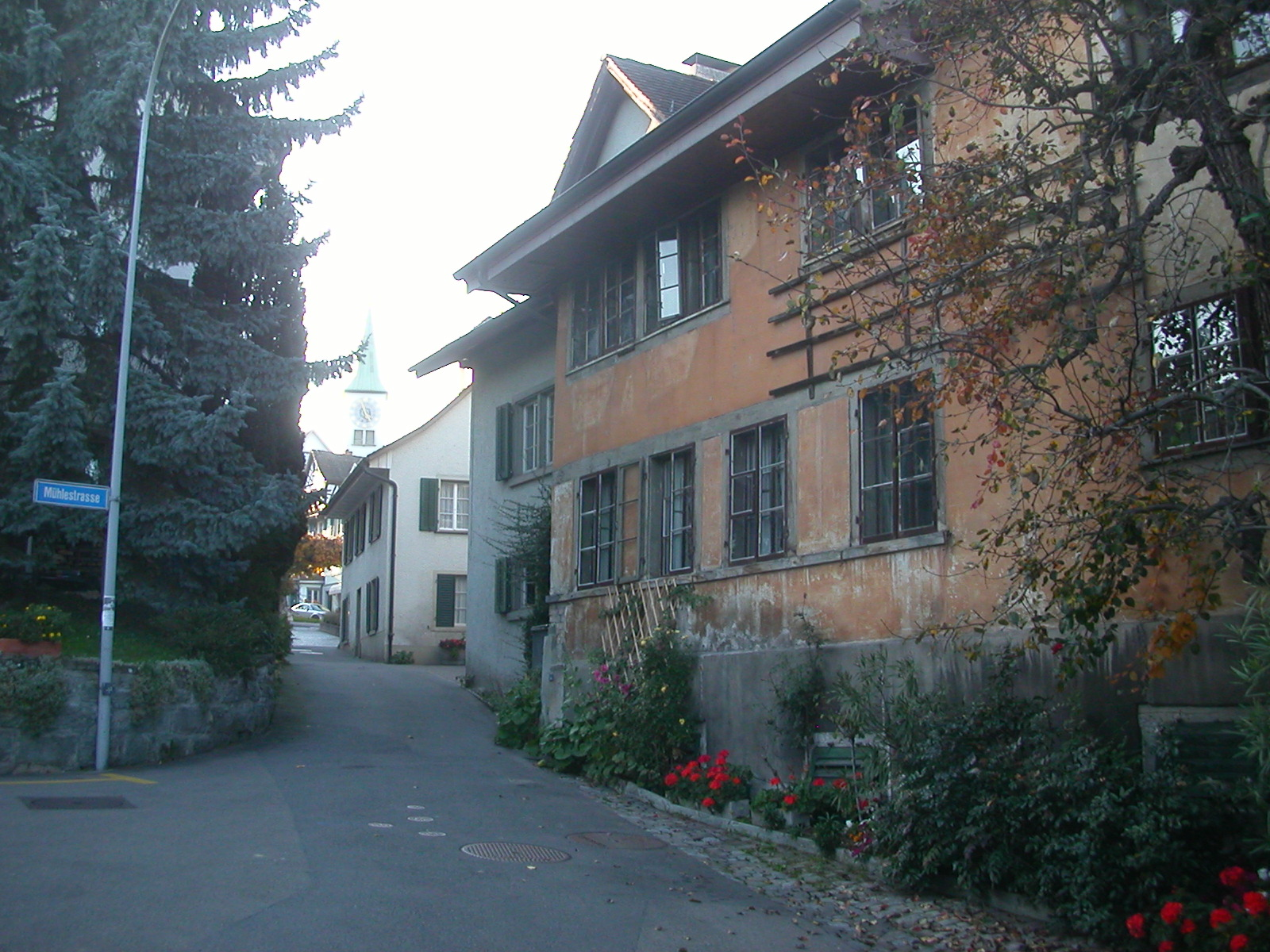 Ruschlikon in 2005